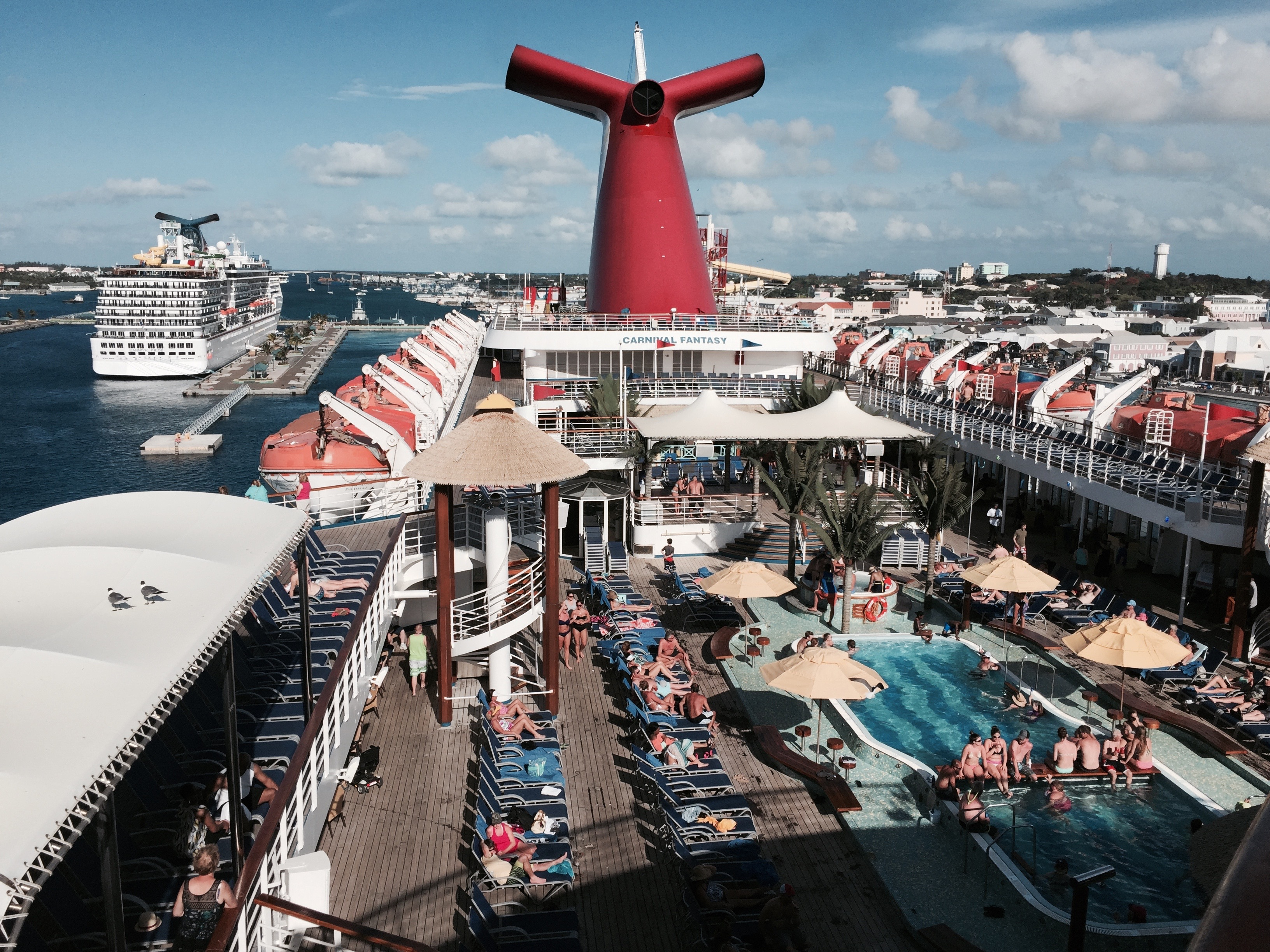 Swimming pool on the Lido Deck of the cruise ship Carnival Fantasy, as it leaves port in Nassau, the Bahamas. In the background, the Carnival Pride is still docked.